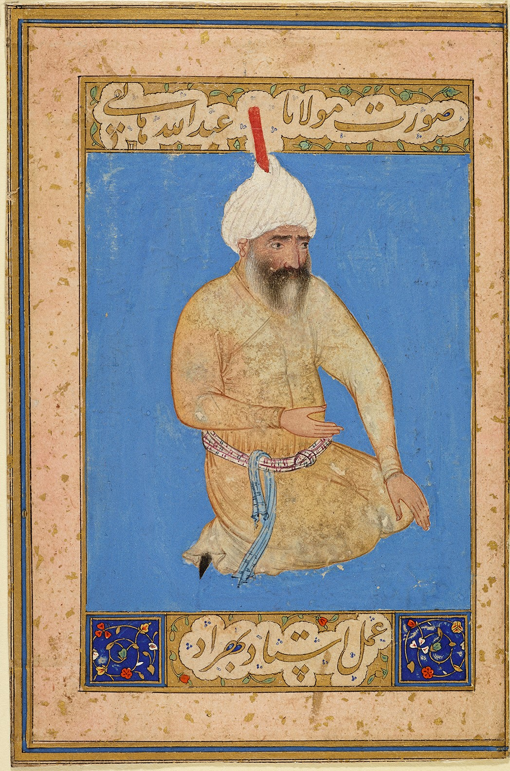 This portrait of persian poet Hatifi is ascribed to Bihzad. the poets weras the taj, safavid turban, so it dates after the capture of the city of Herat by the Safavid shah in 1510.